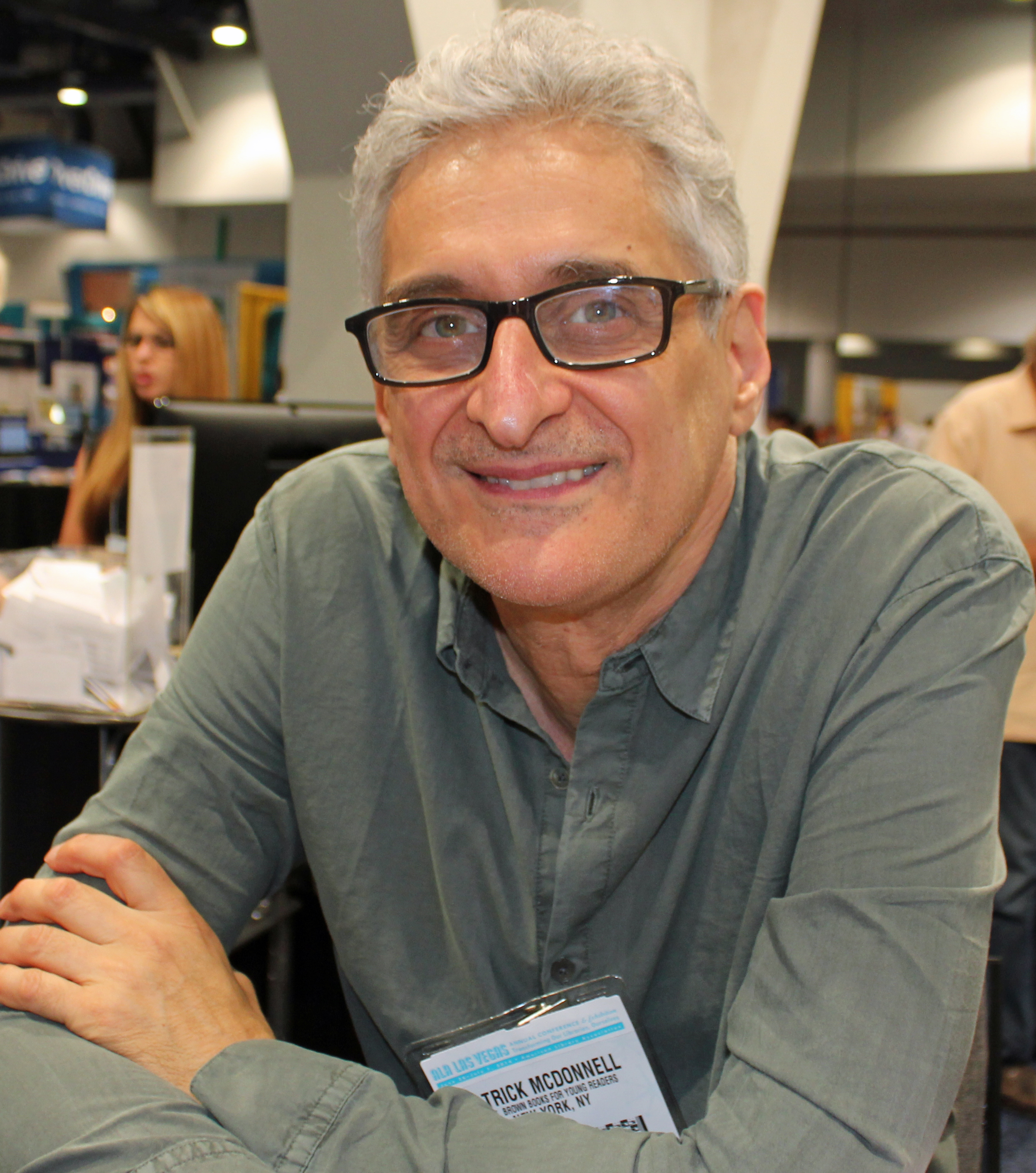 Patrick McDonnell, the creator of the daily comic strip Mutts and the author of children's picture books.